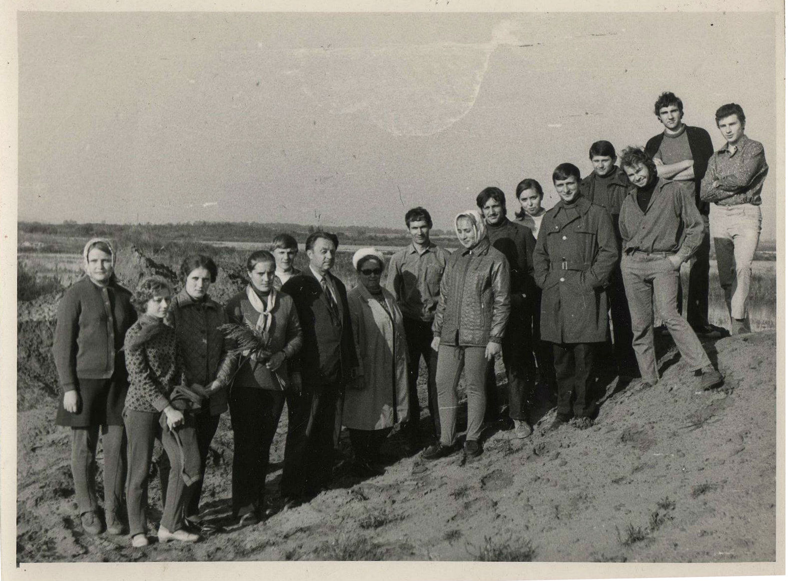 Группа школьников и студентов под руководством ученых - археологов Шовкопляс Анны Михайловны и профессора Шовкопляс Ивана Гавриловича на месте раскопок древнего славянского поселения на берегу реки Почайна (Оболонь, Киев, 1970-е гг.). Архив общественного движения "Почайна"